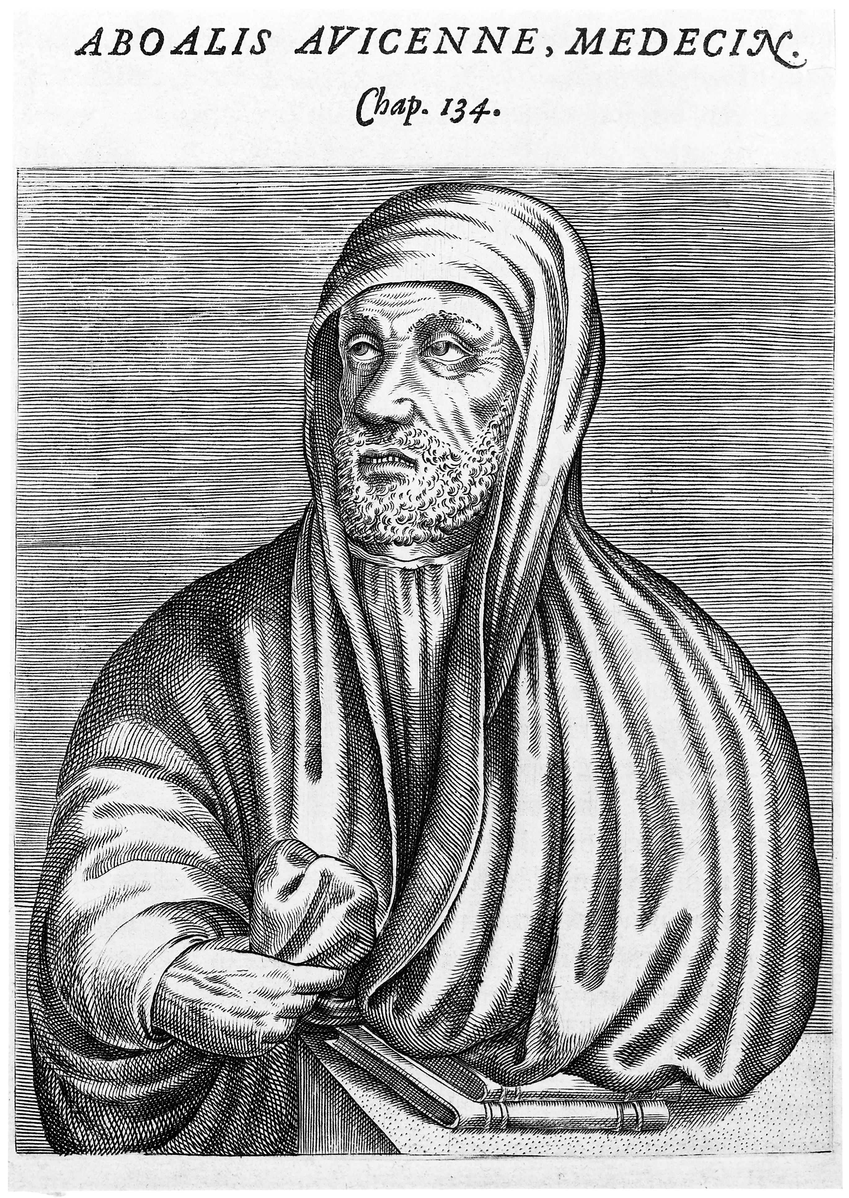 Portrait of Avicenna headed 'Aboalis Avicenna, Medicin, Chap. 134.' Iconographic Collections Keywords: Ibn Sina (Avicenna)